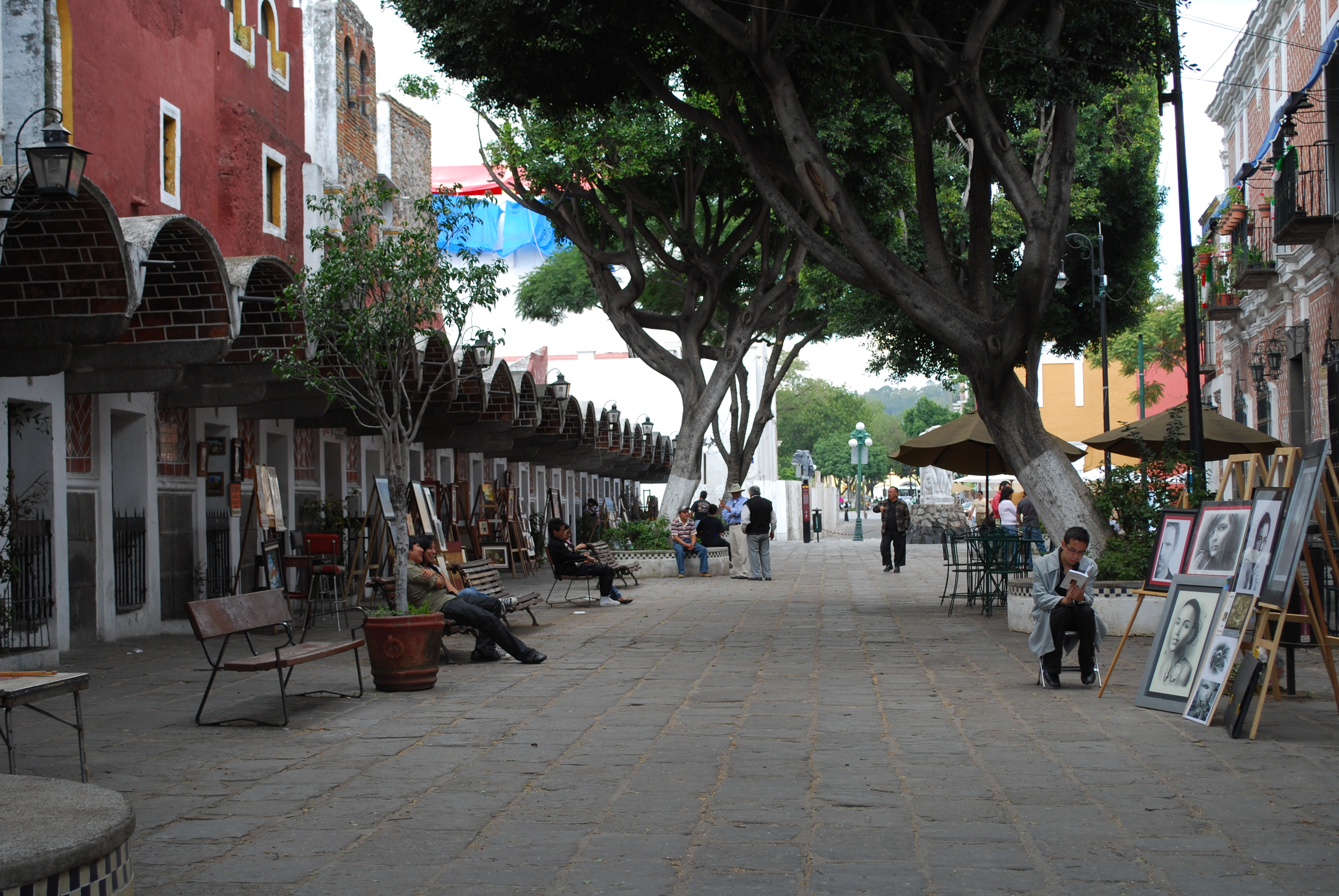 Pedestrian area in the Barrio del Artista in the historic center of Puebla, Mexico